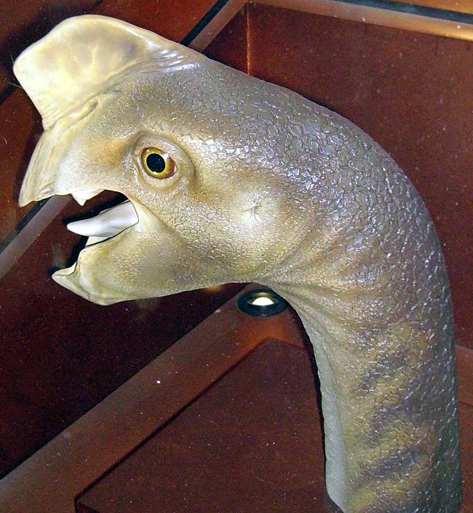 Bust of Citipati sp. at the Natural History Museum, London.